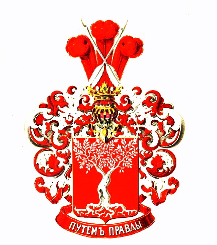 Coat of Arms of Yakov Gurevich family